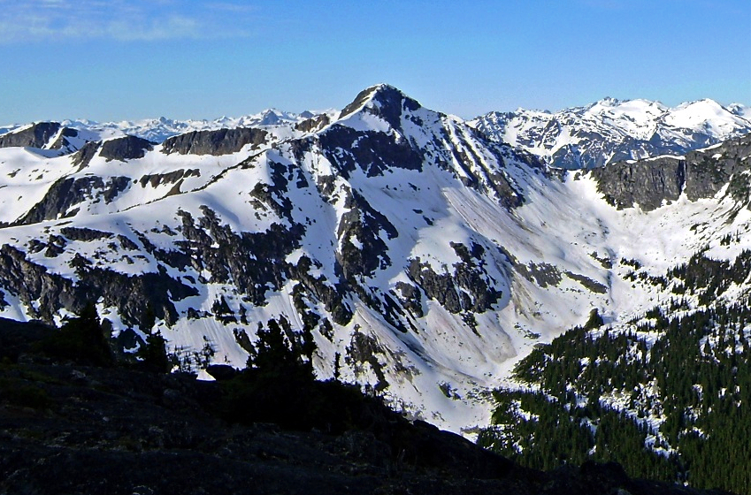 Mount Taylor of Joffre Group as seen from Tszil Mountain